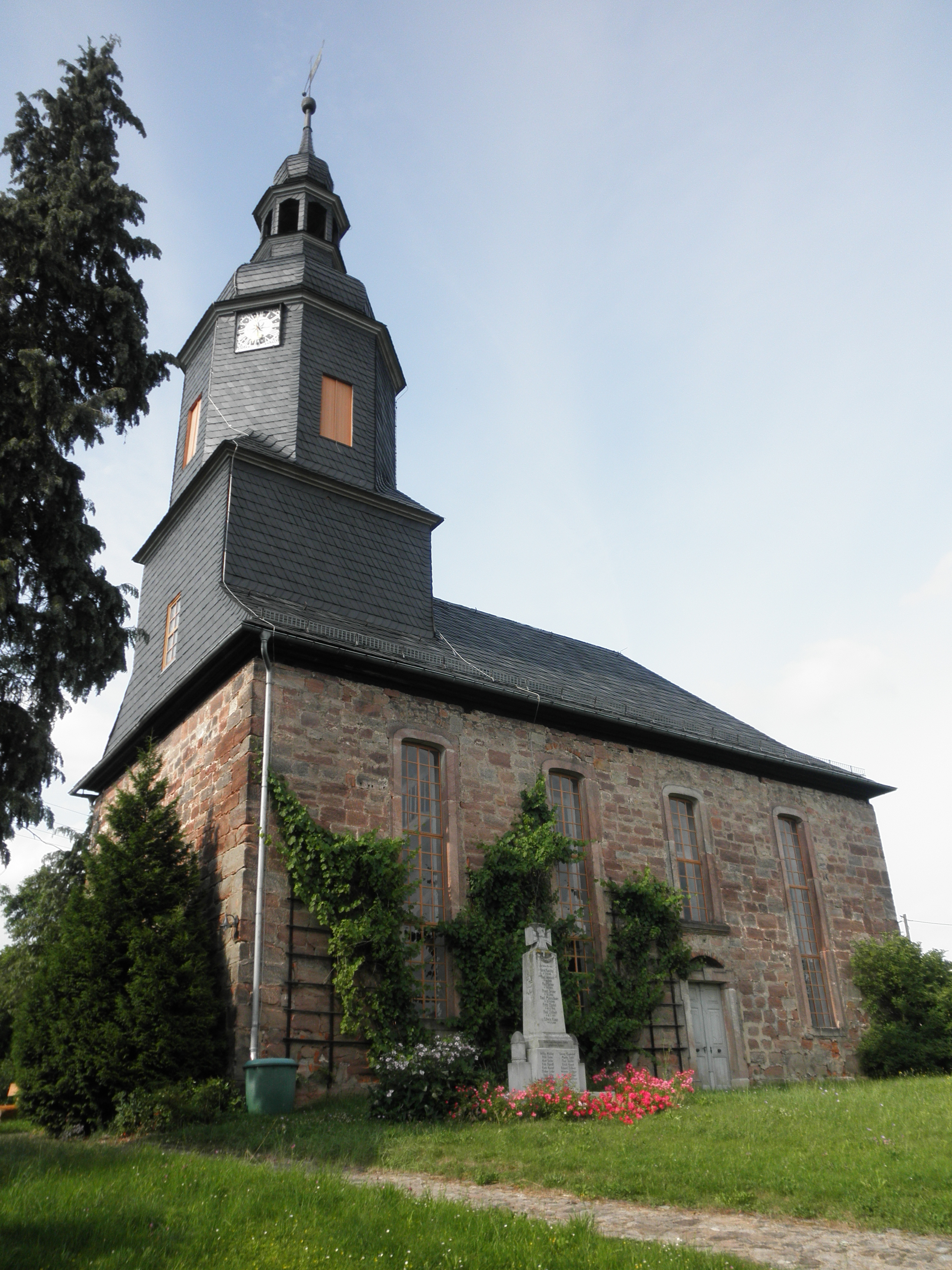 Church in Untergneus in Thuringia